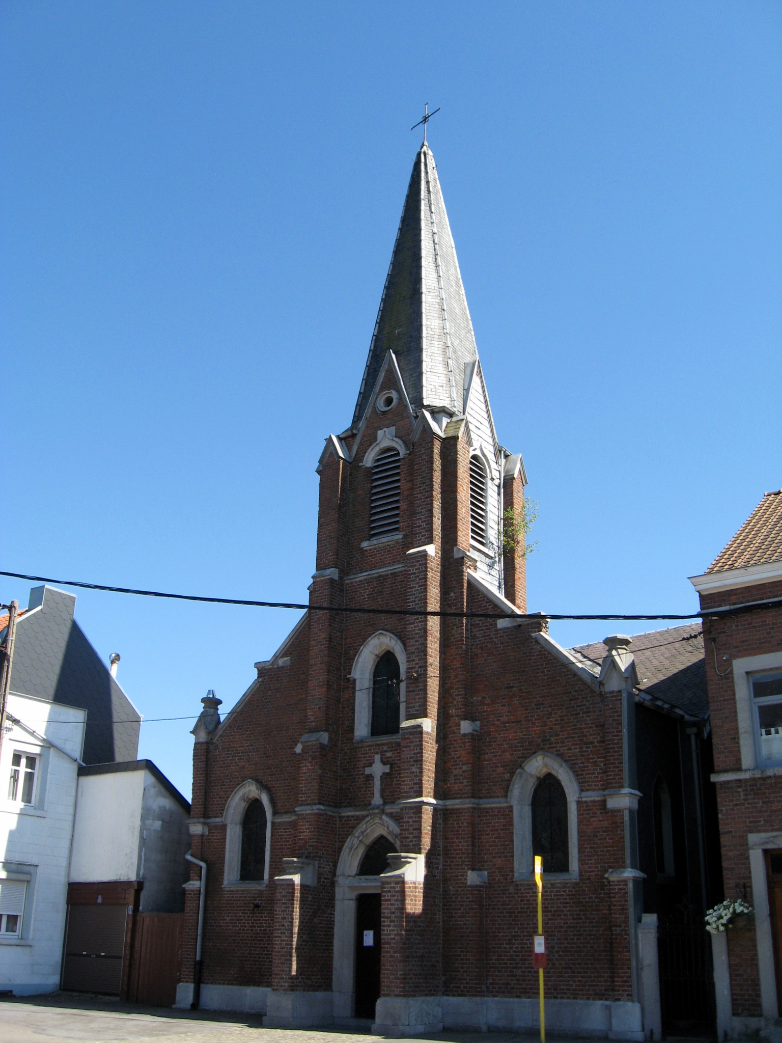 Church of Saint-Joseph in Manaihant, Battice/Petit-Rechain, Herve/Verviers, Liège, Belgium